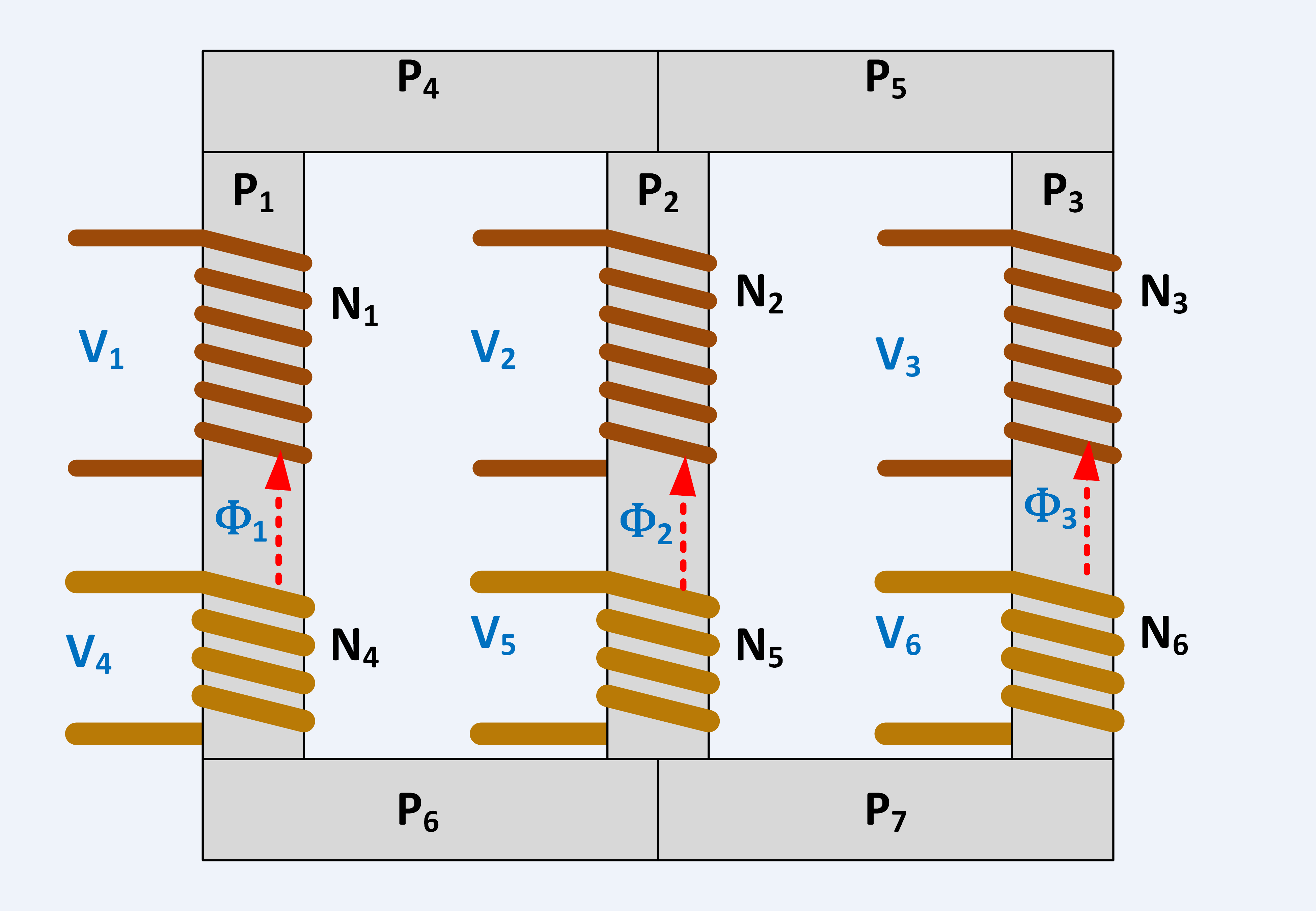 Three phase transformer with windings and permeance elements for use as an example with the gyrator-capacitor approach article.